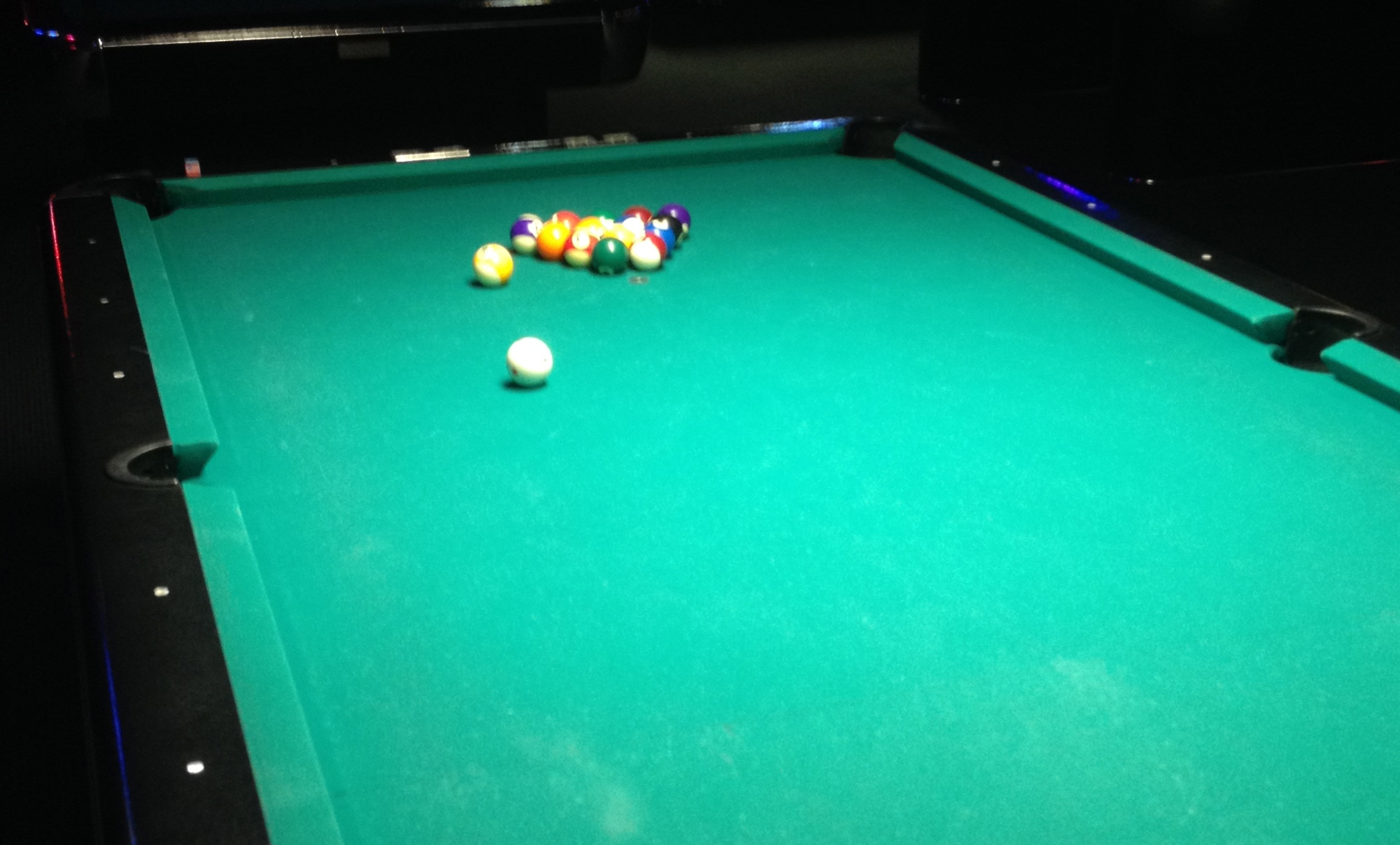 Self-made photo by me, taken in a pool parlor yesterday. I used an iphone 4s.